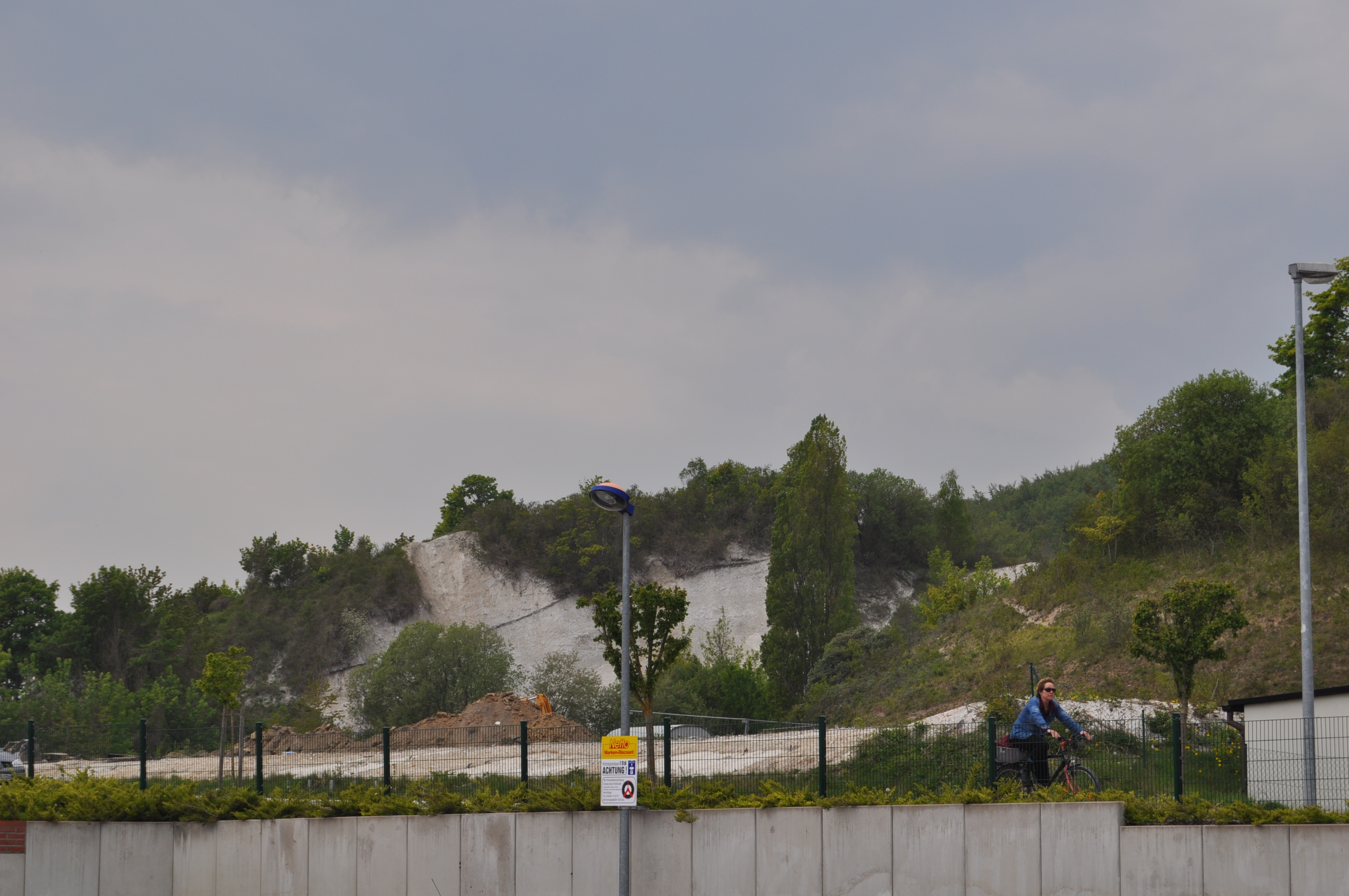 Old chalk quarry at the periphery of the town of Sassnitz, Rugen Island, northeastern Germany, seen from the parking lot of a supermarket at Bachstraße/Hauptstraße.